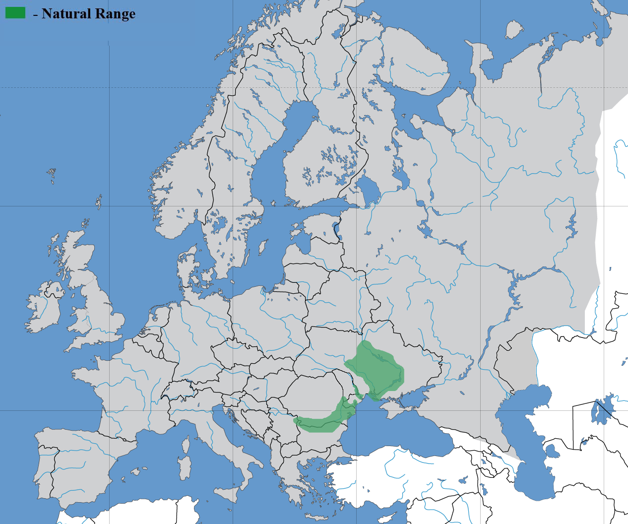 The range of Benthophilus nudus